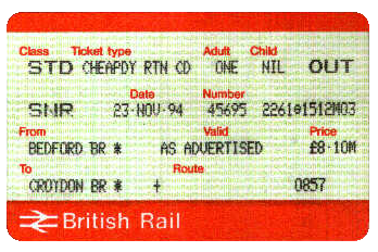 An APTIS travel ticket issued before the privatisation of British Rail, for travel between the "Bedford Group" and the "Croydon Group", showing the pre-privatisation designations BEDFORD BR and CROYDON BR.